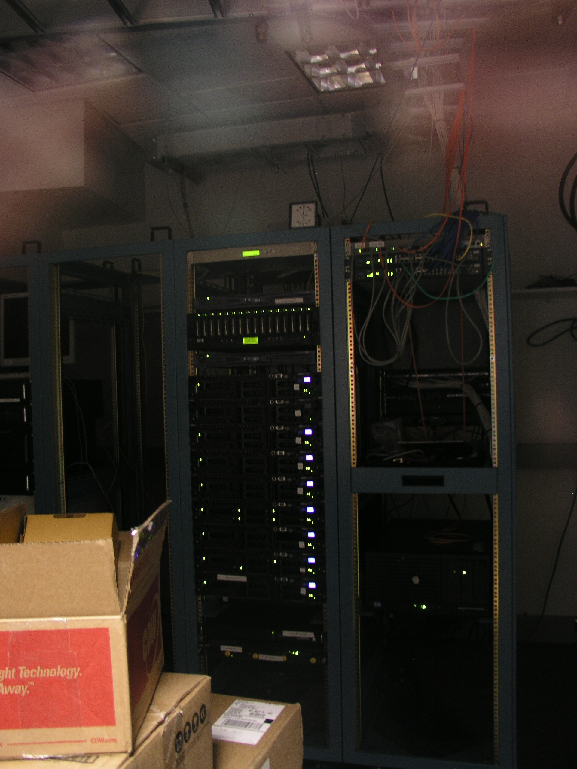 Large Binocular Telescope - Raid Array / Server